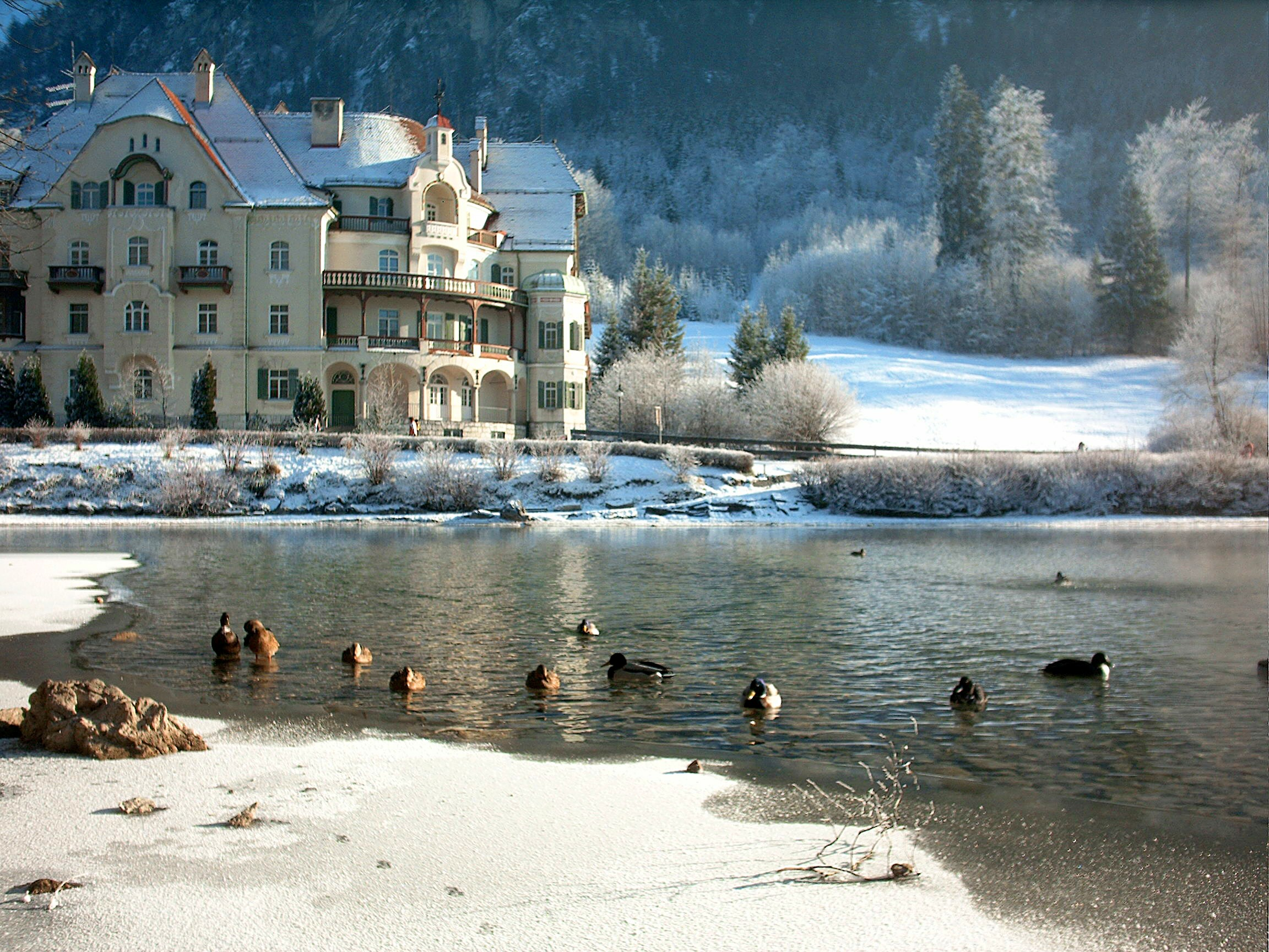 Christmas Day 2006 on the Alpsee near Fuessen in Southern Bavaria